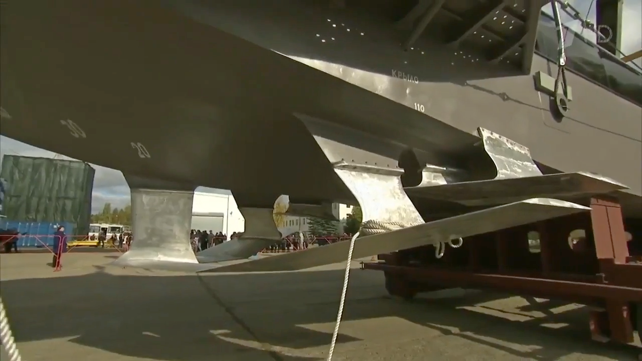 Valday 45R Hydrofoil